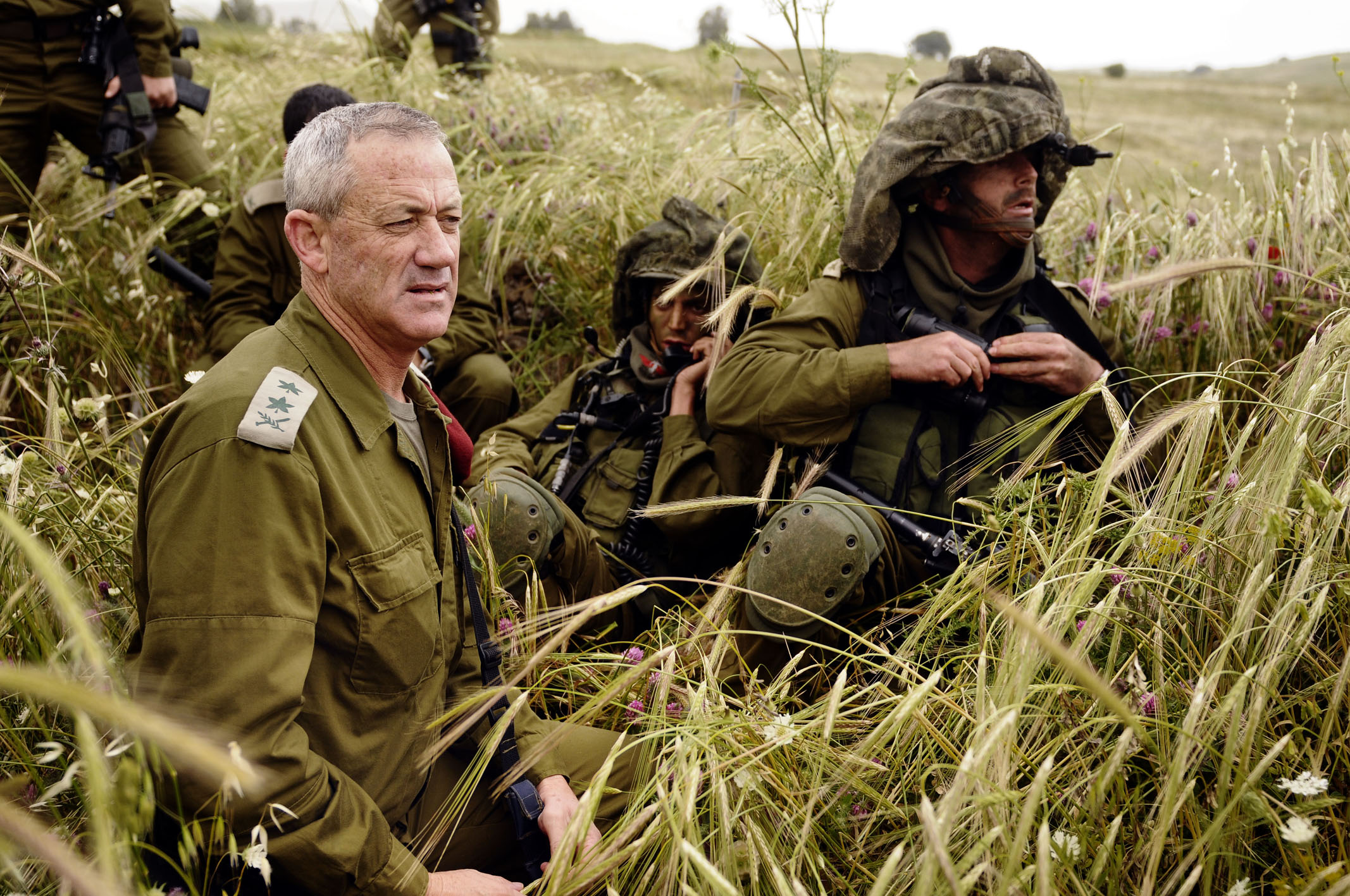 May 18, 2011 The Chief of the General Staff, Lt. Gen. Benny Gantz, visited an exercise conducted today in the Golan Heights by the Python battalion, part of the Paratrooper's Brigade. During his visit, Lt. Gen. Gantz heard briefings, watched the exercise, and talked with commanders and their soldiers. The Python brigade conducted the exercise after successfully completing operational duties in southern Israel. היום (ד'), ביקר הרמטכ"ל, רא"ל בני גנץ, בתרגיל של גדוד "פתן" של חטיבת הצנחנים אשר נערך ברמת הגולן. במהלך הביקור שמע הרמטכ"ל סקירות, צפה בתרגיל ושוחח עם המפקדים והלוחמים.